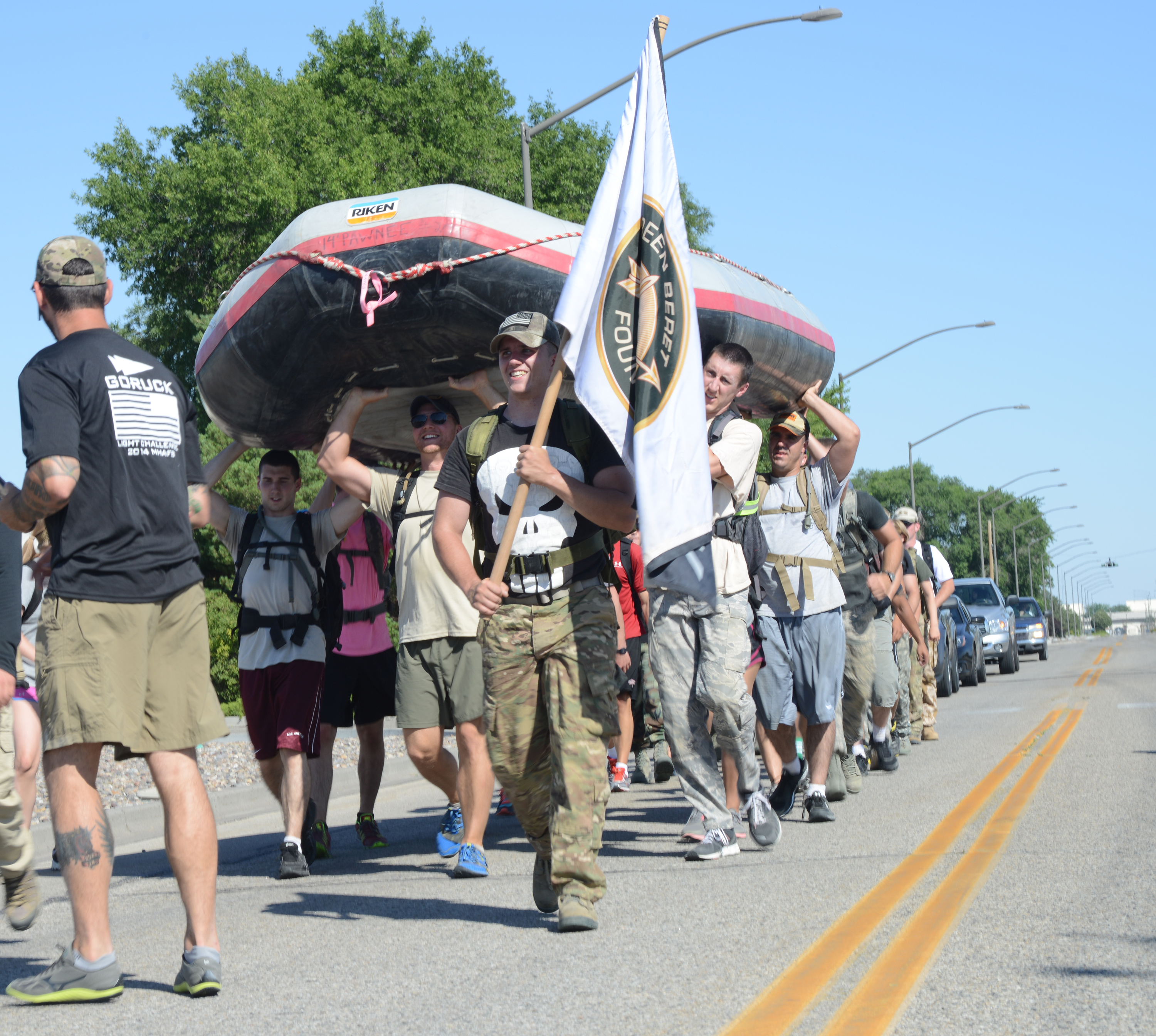 Members participating in the GORUCK Light Challenge carry a 250 pound raft on their shoulders July 12, 2014, at Mountain Home Air Force Base, Idaho. The new Air Force pilot program, Team Cohesion Challenge, is modeled after special operations training. (U.S. Air Force photo by Senior Airman Benjamin Sutton/Released) Unit: 366th Fighter Wing DVIDS Tags: Air Force; Airman; USAF; Mountain Home AFB; Gunfighters; GORUCK